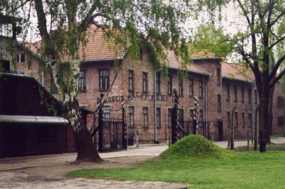 object: Konzentrationslager Auschwitz I Stammlager picture taken 2001 by André Freud